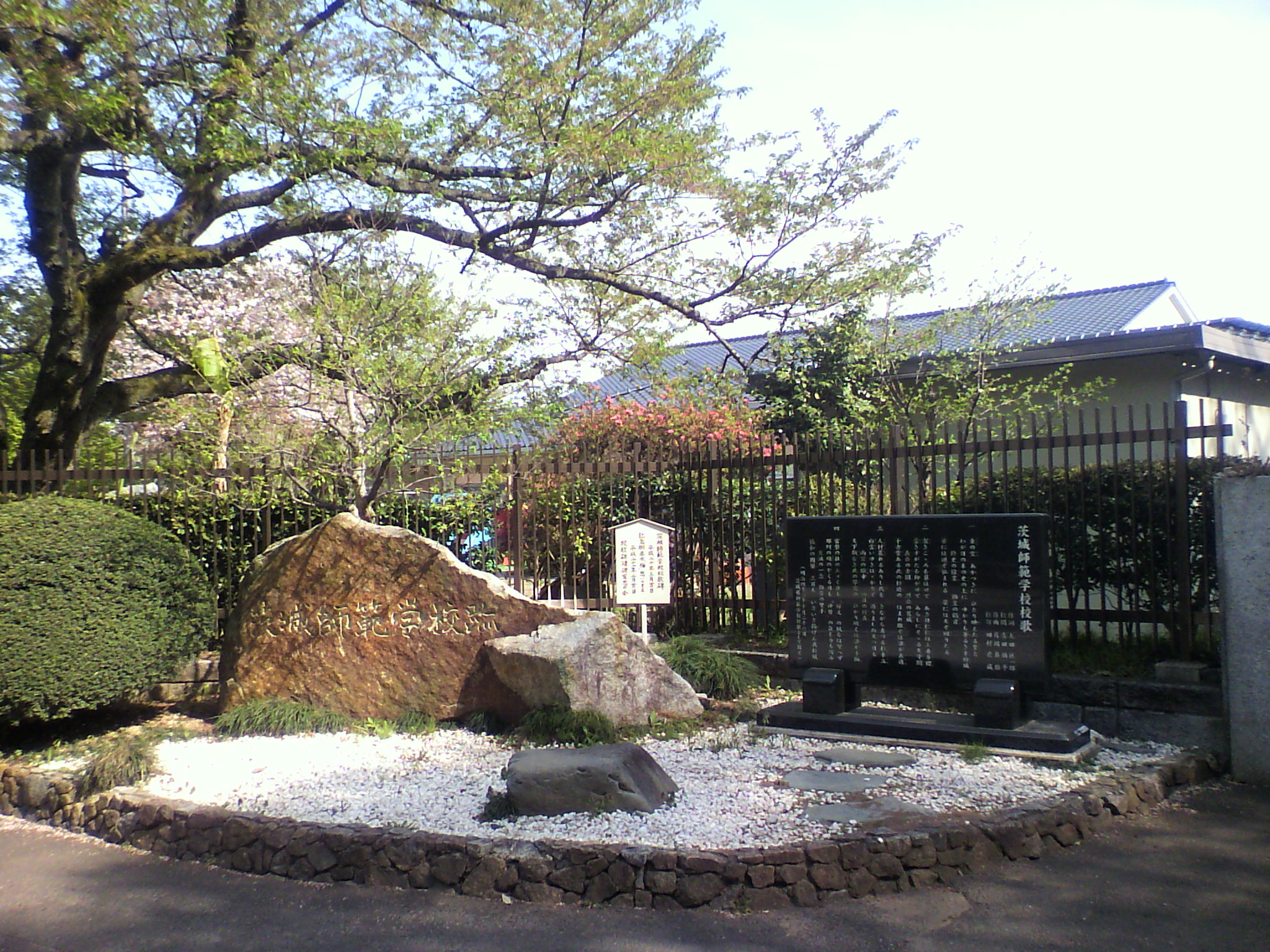 This was the Ibaraki Normal School, which is located in Mito, Ibaraki, Japan..